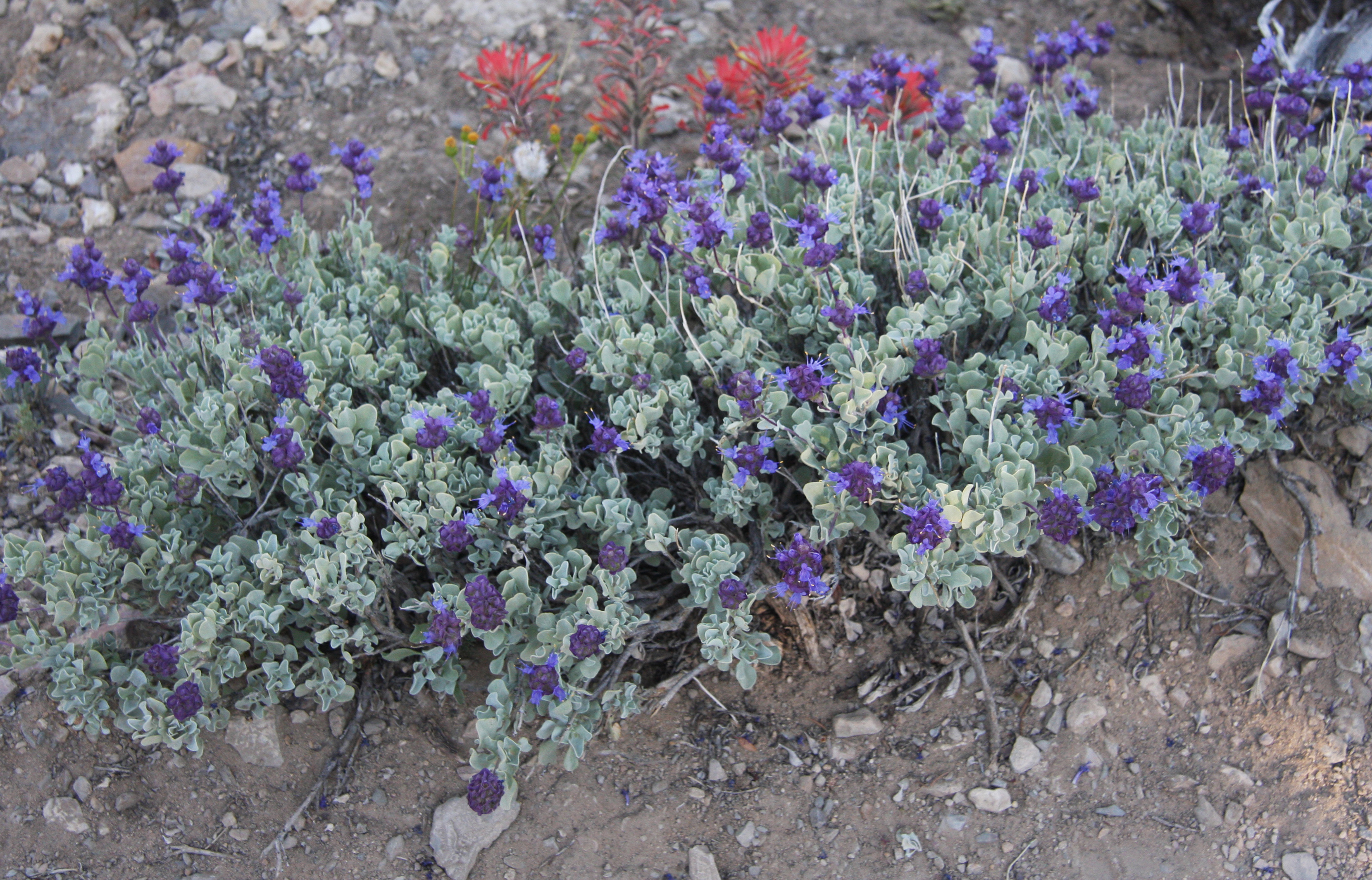 Purple sage, or desert sage, (Salvia dorrii) plant, in shade (petals & bracts appear paler and pinker in full sun). On broad ridge along Methuselah Trail, Schulman Grove of bristlecones, White Mountains, Nevada.